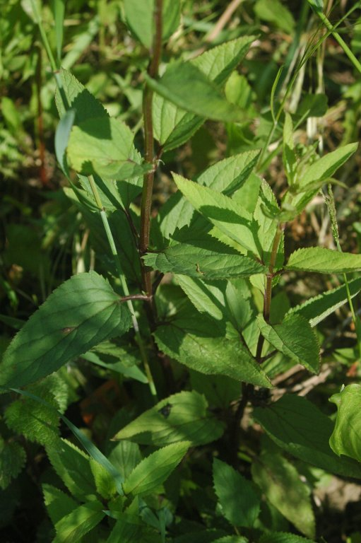 Scrophularia buergeriana